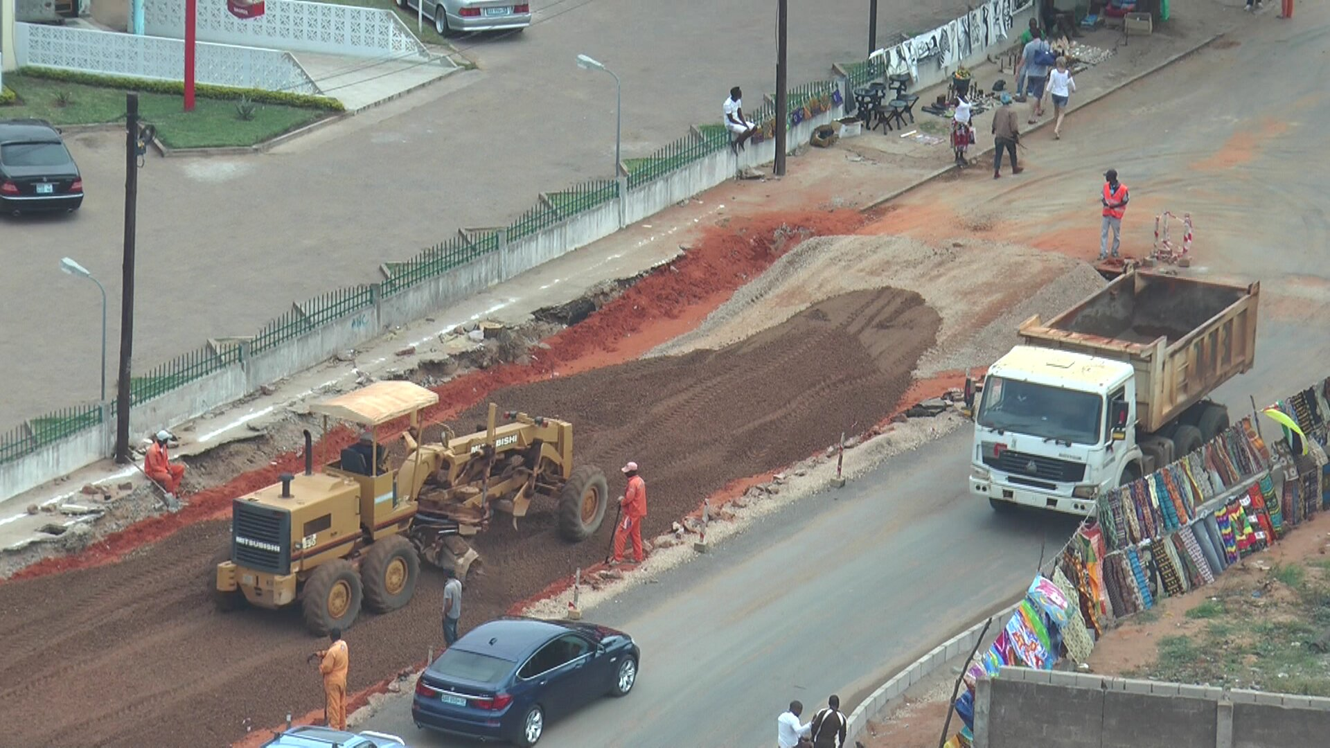 Construction works for Maputo's Ring Road, in front of Radisson BLU Hotel at Avenida da Marginal in Maputo, Mozambique